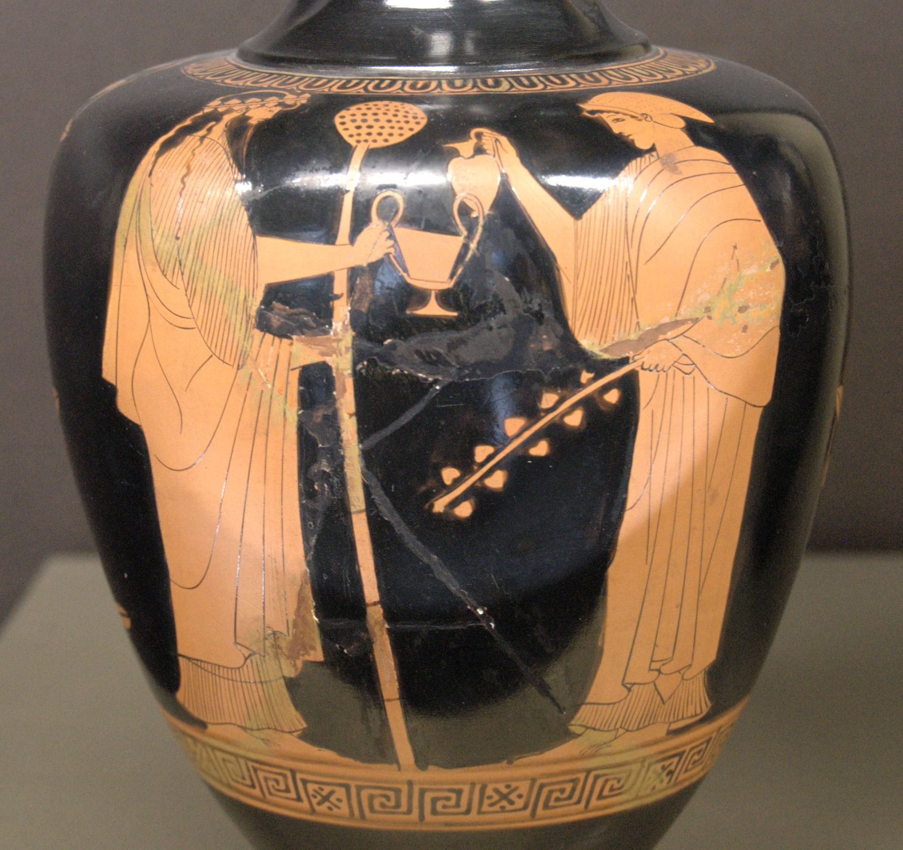 Dionysos and maenad. Attic red-figure oinochoe, 480–470 BC. From Nola.